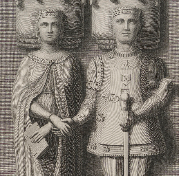 The Effigies of King John the First and Queen Philippa of Lancaster.